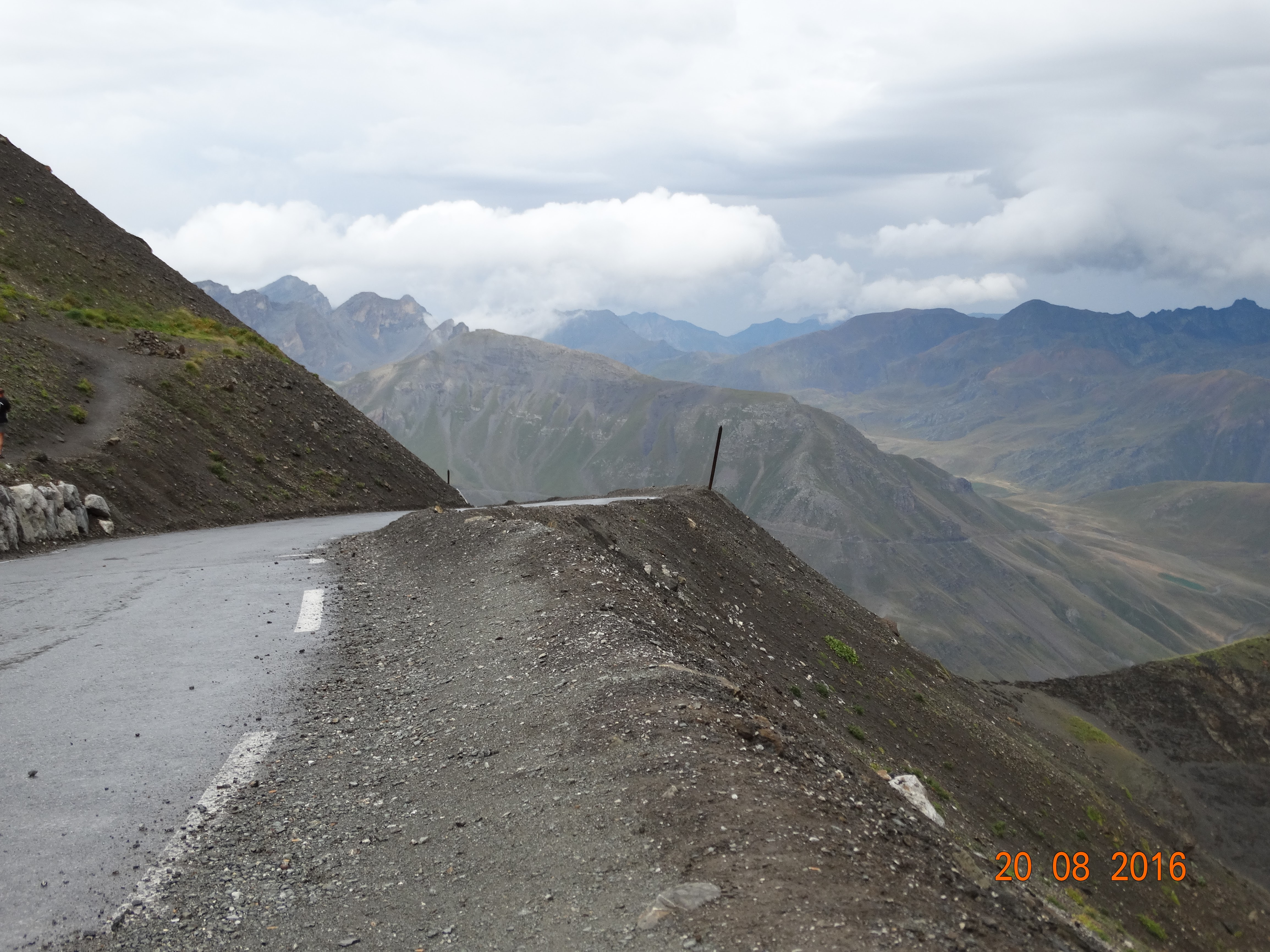 Col de la Bonette